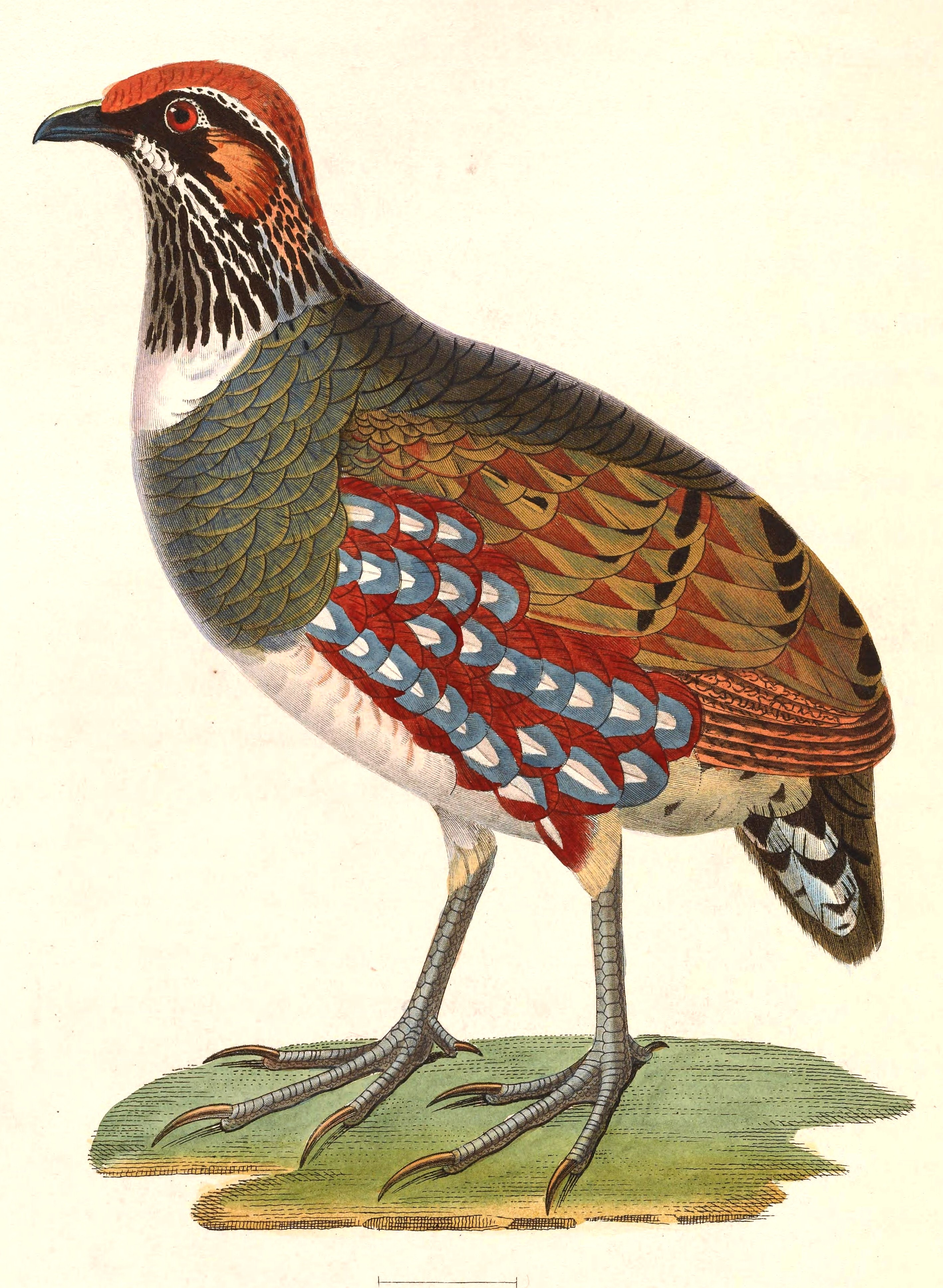 « Perdix megapodia » = Arborophila torqueola torqueola (Subspecies of Hill Partridge) - male